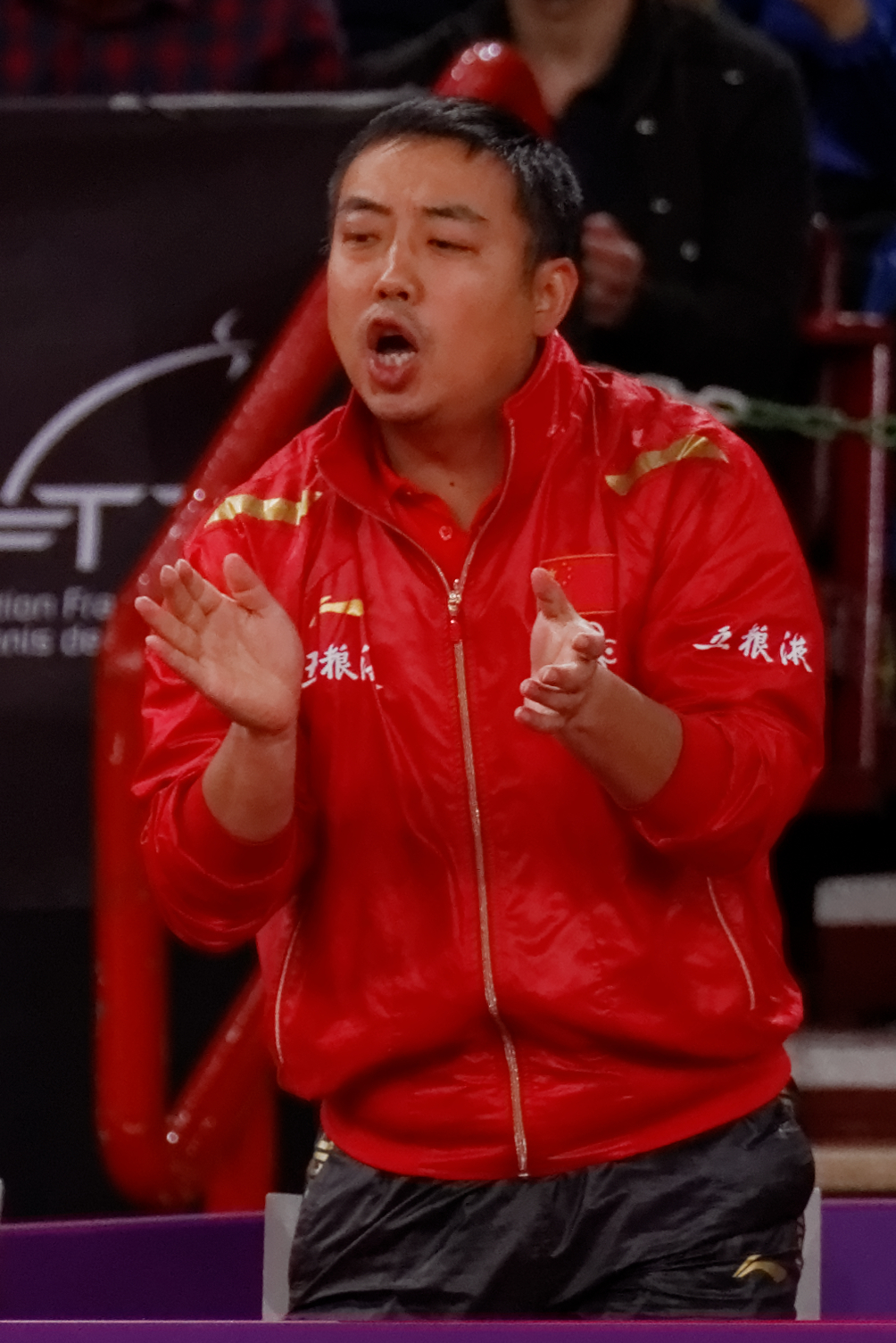 2013 World Table Tennis Championships, Paris. Men's Singles Round 4. Ma Long vs Koki Niwa.